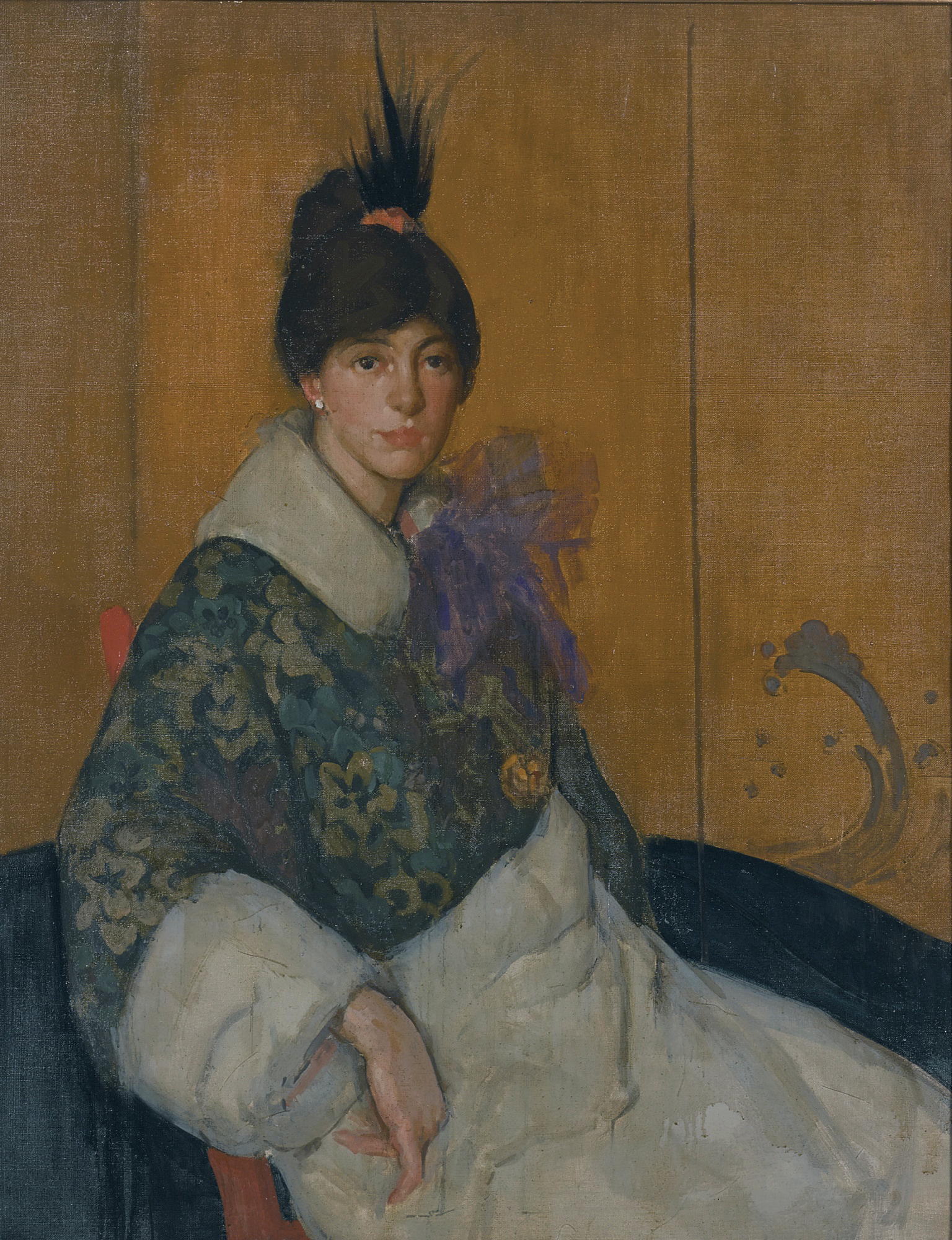 The green cloak oil on canvas 102.2 by 82 cm 1912